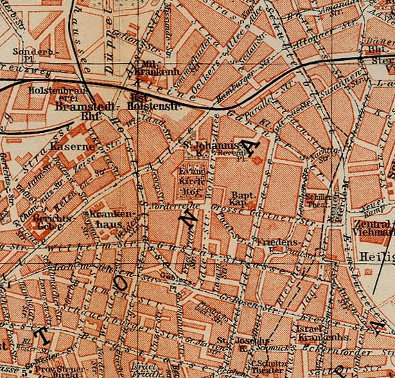 Map of Hamburg and Altona, Germany, 1910